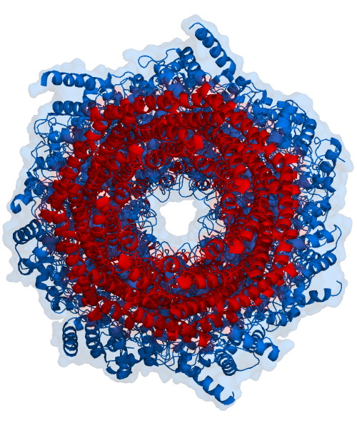 Cartoon representation of a proteasome. This cylinder-shaped protein has its active sites sheltered inside the tube (blue). The caps (red) on the ends regulate entry into the destructive chamber, where the protein is chopped into pieces 3 to 23 amino acids long. For more information see publication: [1]